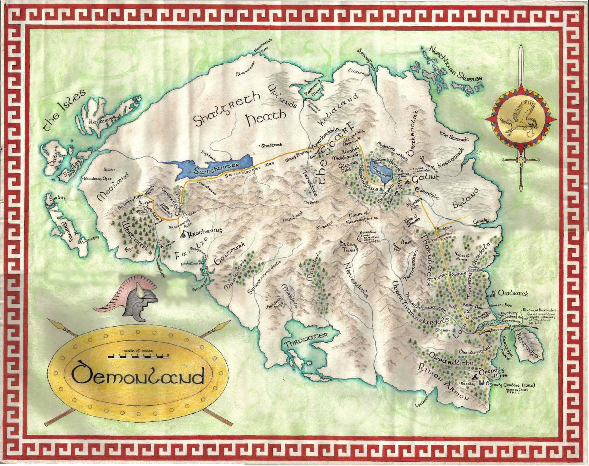 Map of Demonland from "The Worm Ouroboros" by E.R. Eddison